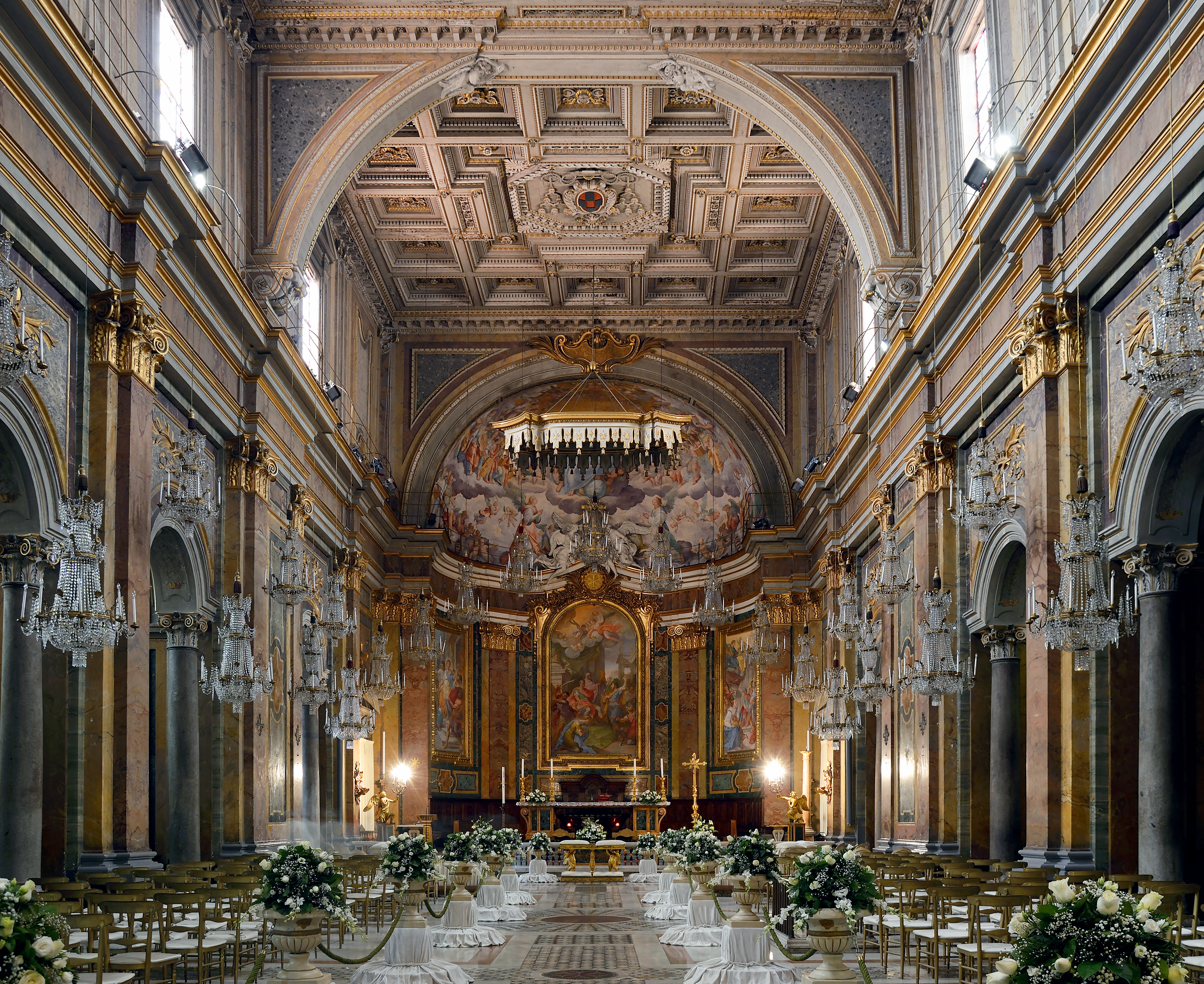 Basilica dei santi Giovanni e Paolo al Celio - Intern